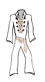 Chain Suit (Elvis)